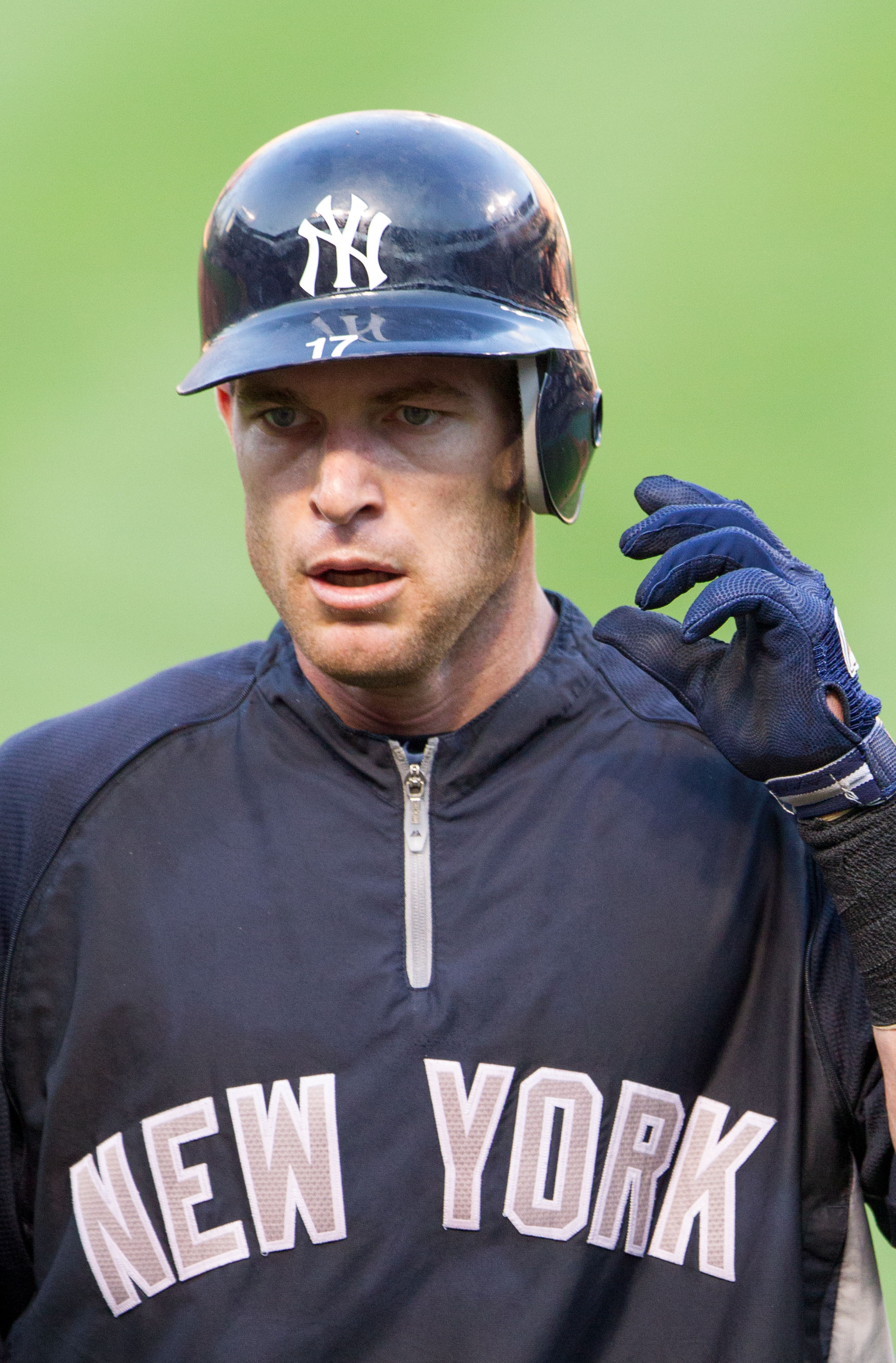 Jayson Nix